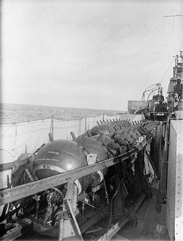 Closeup of mines carried on port side aft, on Arethusa class cruiser HMS AURORA. The mines are shielded behind canvas screens.